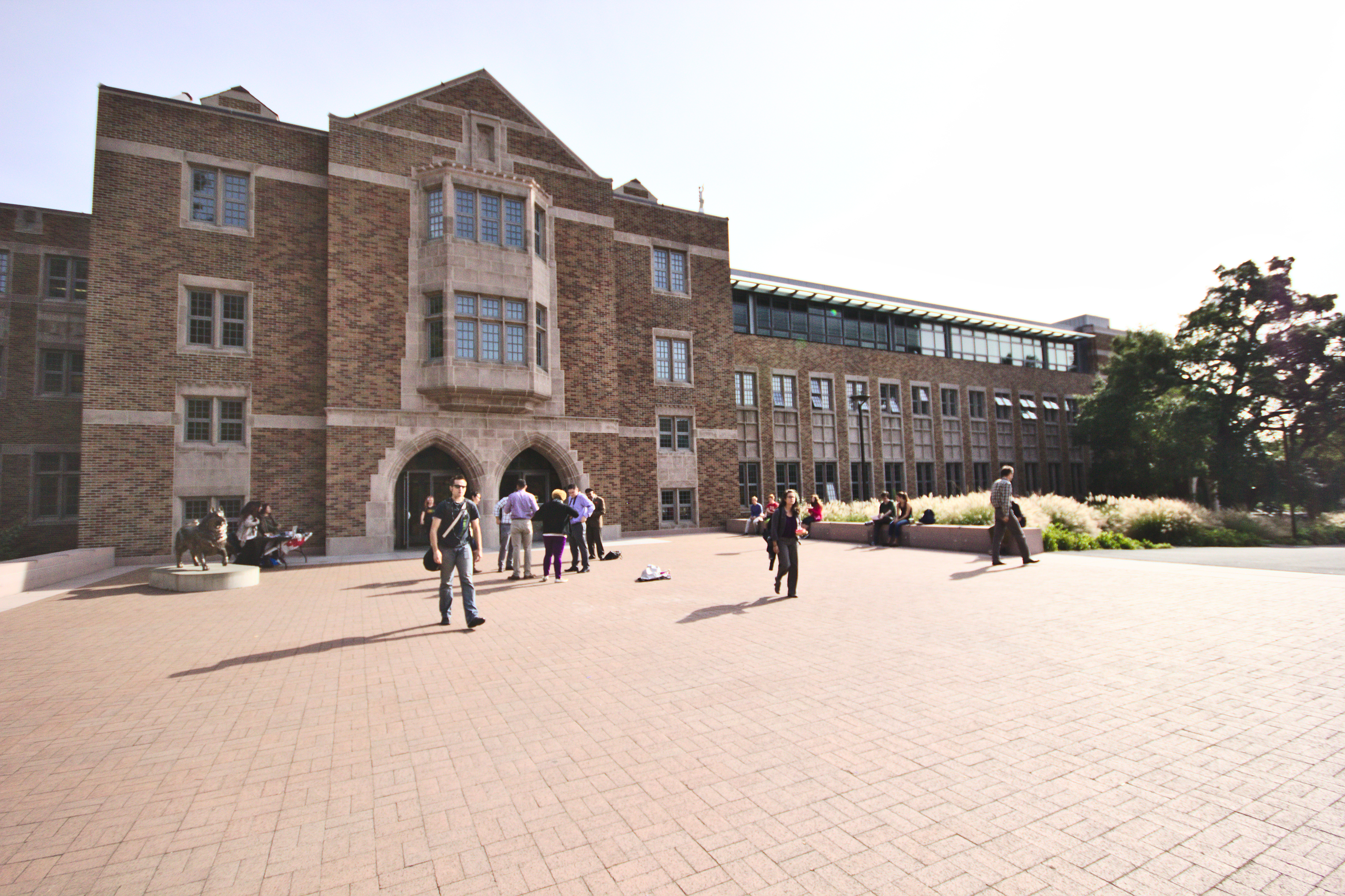 One of the entrances to the Husky Union Building (HUB) on the University of Washington campus